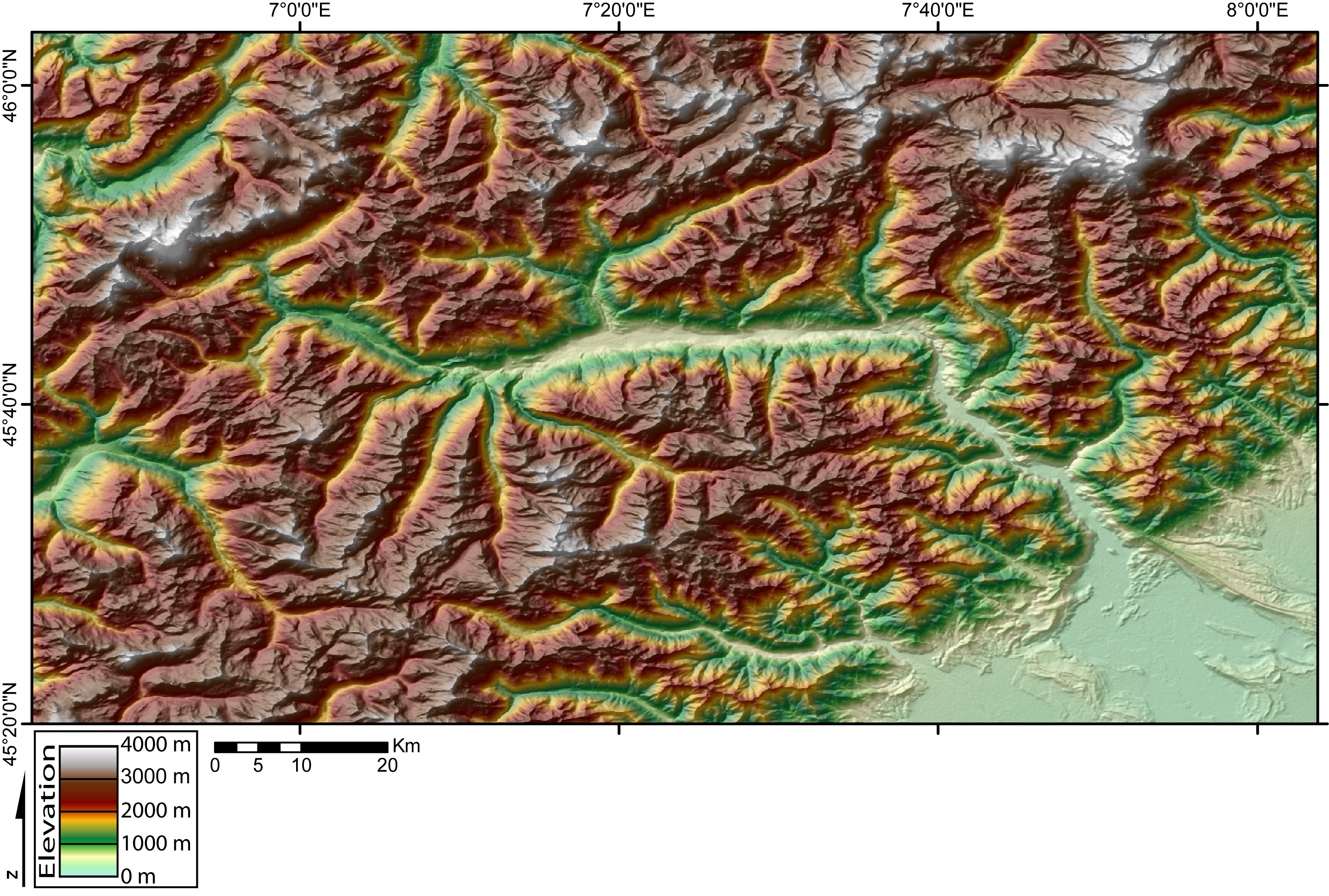 DEM of the Val d'Aosta (W Italian Alps) created by Jide from the 90m pixel size SRTM dataset. The Dora Baltea river runs in the Aosta Valley from the West (Mont Blanc massif) to the East (Po plain).